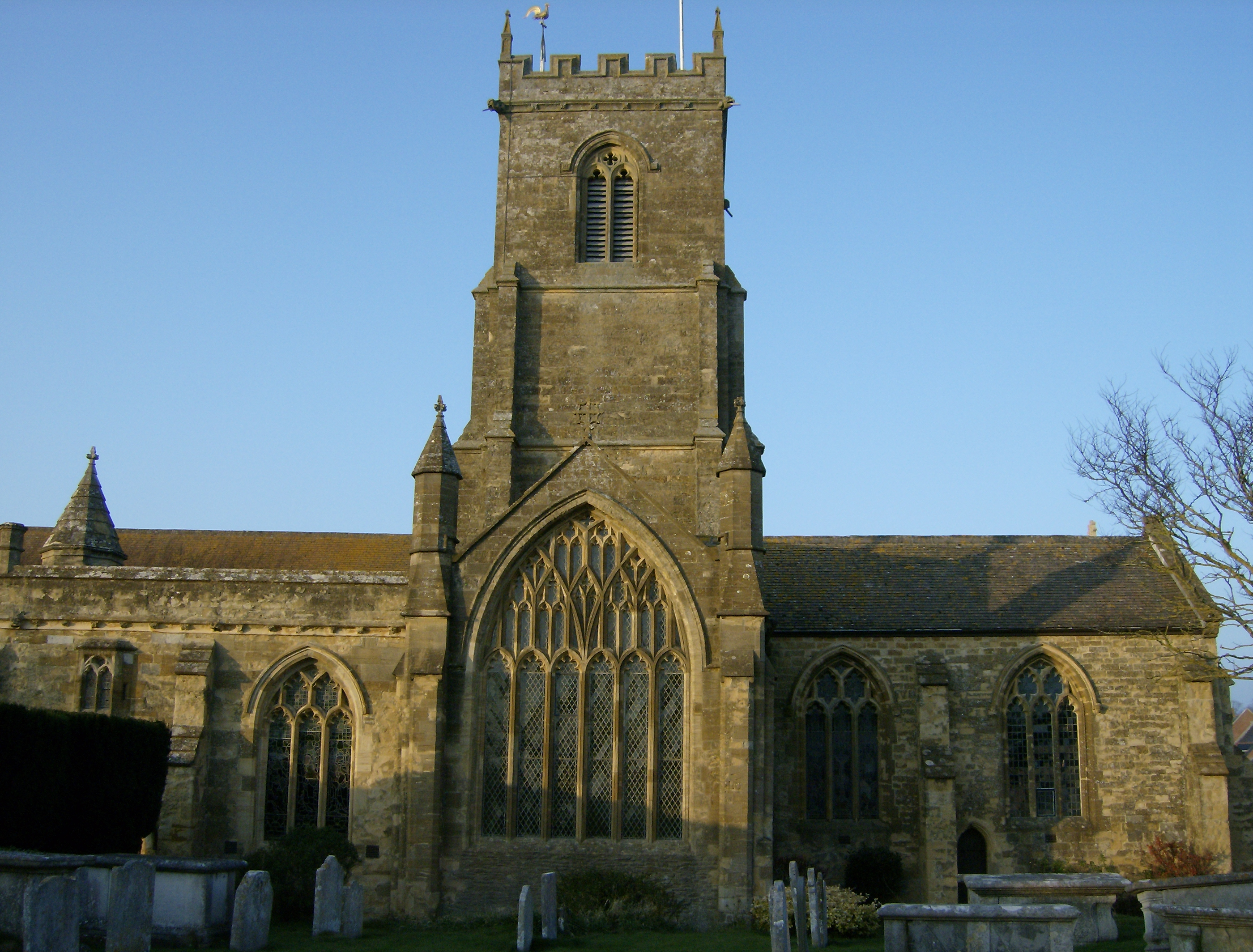 St Mary's Church, Bridport, Dorset